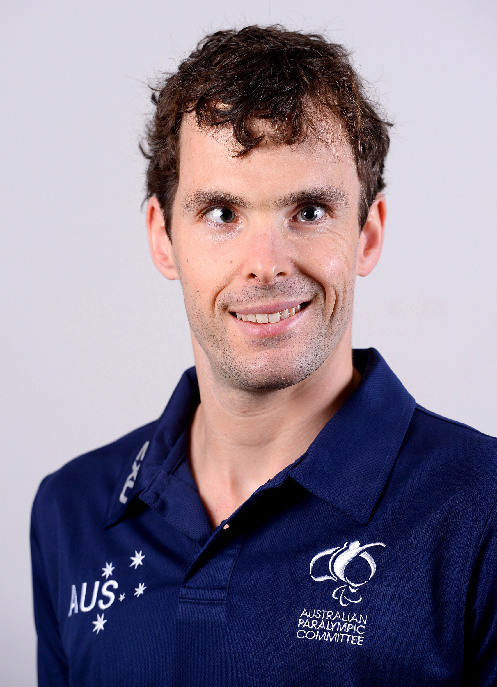 Portrait photograph of Matt Levy taken at team processing session for shadow members of 2016 Australian Paralympic team